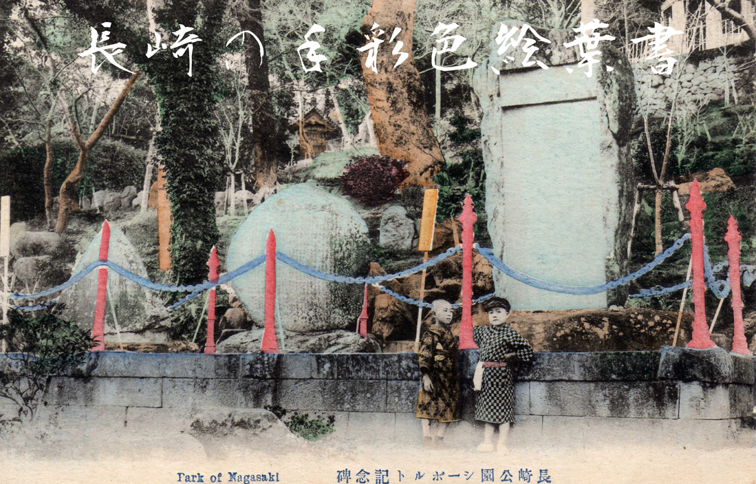 Japanese hand tinted postcard of the Siebold Monument in Nagasaki Park